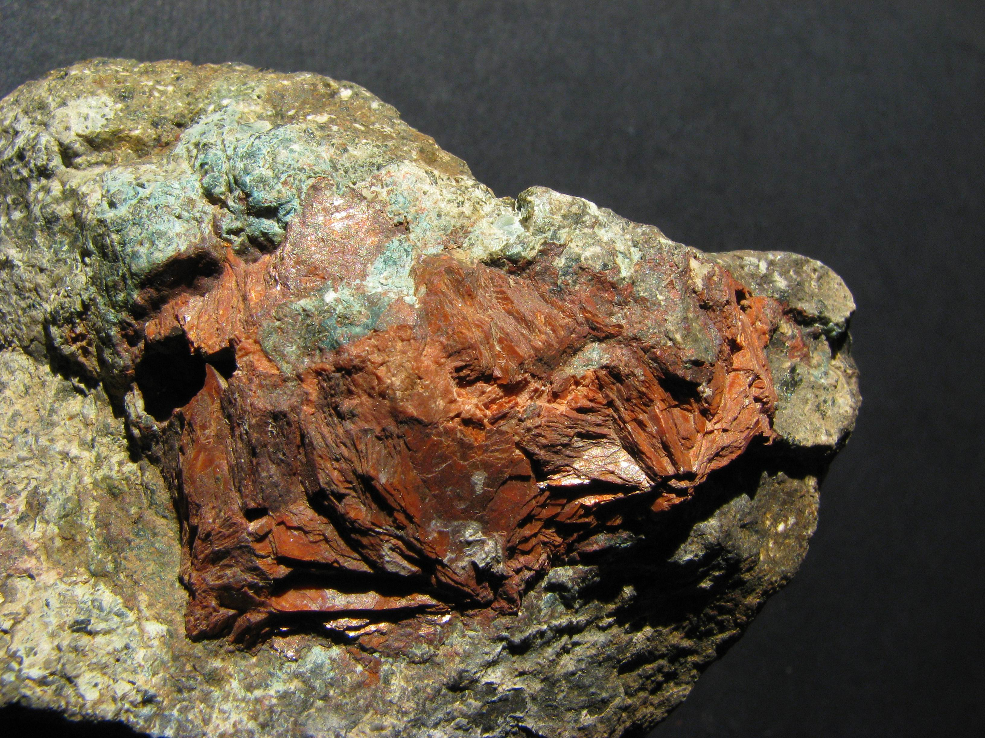 Mordenite, lamellar aggregates - Arabba, Trentino, Italy